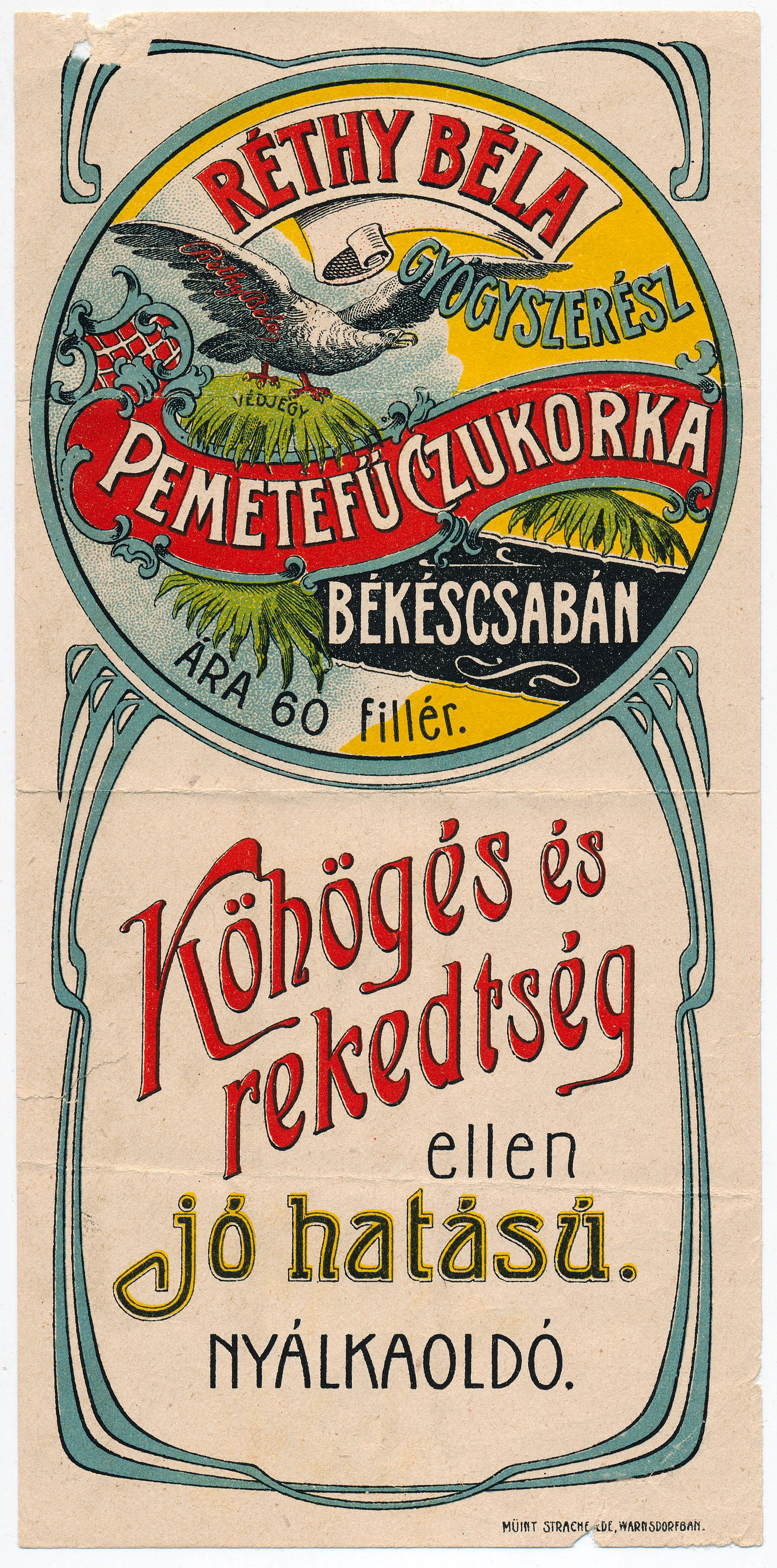 Advertising - Horehound (medicinal) candy by Rethy Bela Bekescsaba - Hungary 1905.